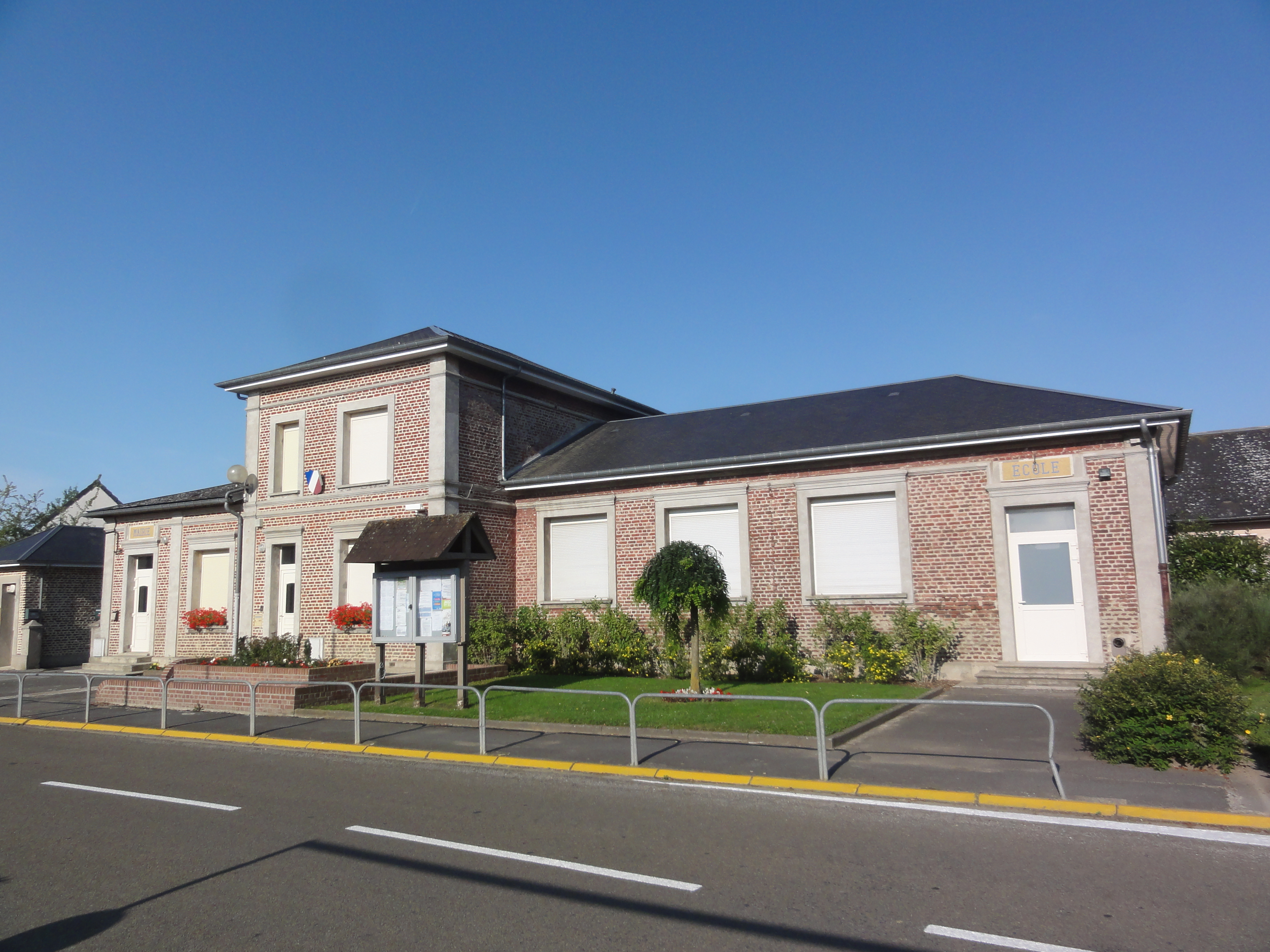 Francilly-Selency (Aisne) mairie-école